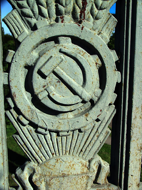 Object: Detail of the bridge decoration in Kaliningrad Original description: This is a detail of the bridge. Comment by User:Kneiphof: This detail, showing Soviet coat of arms belongs to Estakadnyy bridge, that was built in the 1970s.